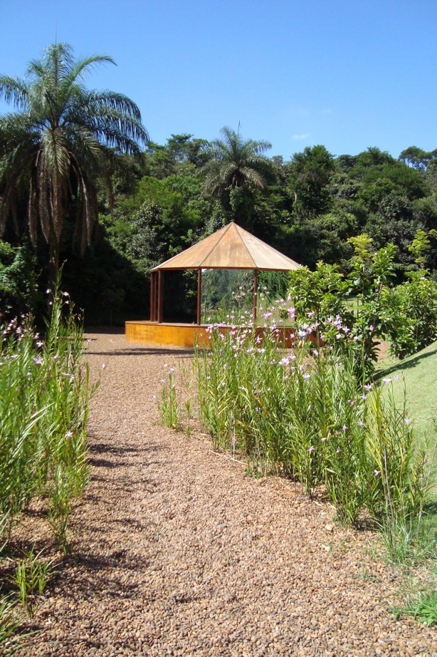 Folly by Valeska Soares, Park Inhotim, Brumadinho, Minas Gerais, Brazil